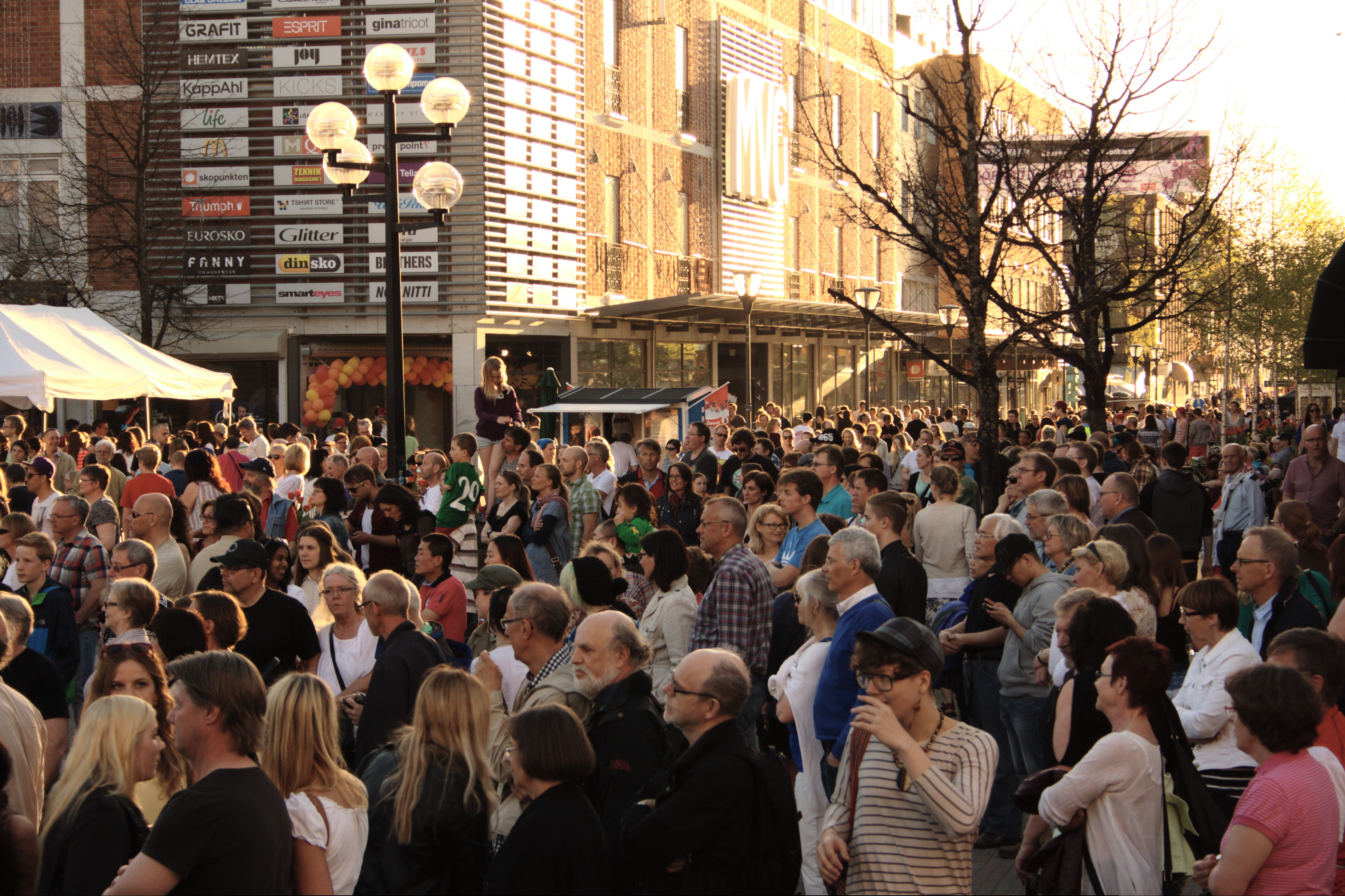 Kulturnatta is an annual event and a celebration of culture and creativity in Umeå, Sweden. It's a day with a large variety of activities in the central area of Umeå City.